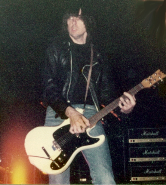 Guitarist Johnny Ramone in concert. The Eagle Hippadrome, 1983 Ramones concert in Seattle, WA. It was the last show at the venue before it was torn down and became a parking lot. Photo was taken with a cheap 110 camera. A little later in the show, Dee Dee Ramone was hit with a beer bottle that someone thew. He tossed off his bass and jumped in to the crowd to kick the crud out of the guy. He jumped back on stage and walked off and all the while the rest of the guys just kept jamming. They took a break, then all came back on and continued with the show.